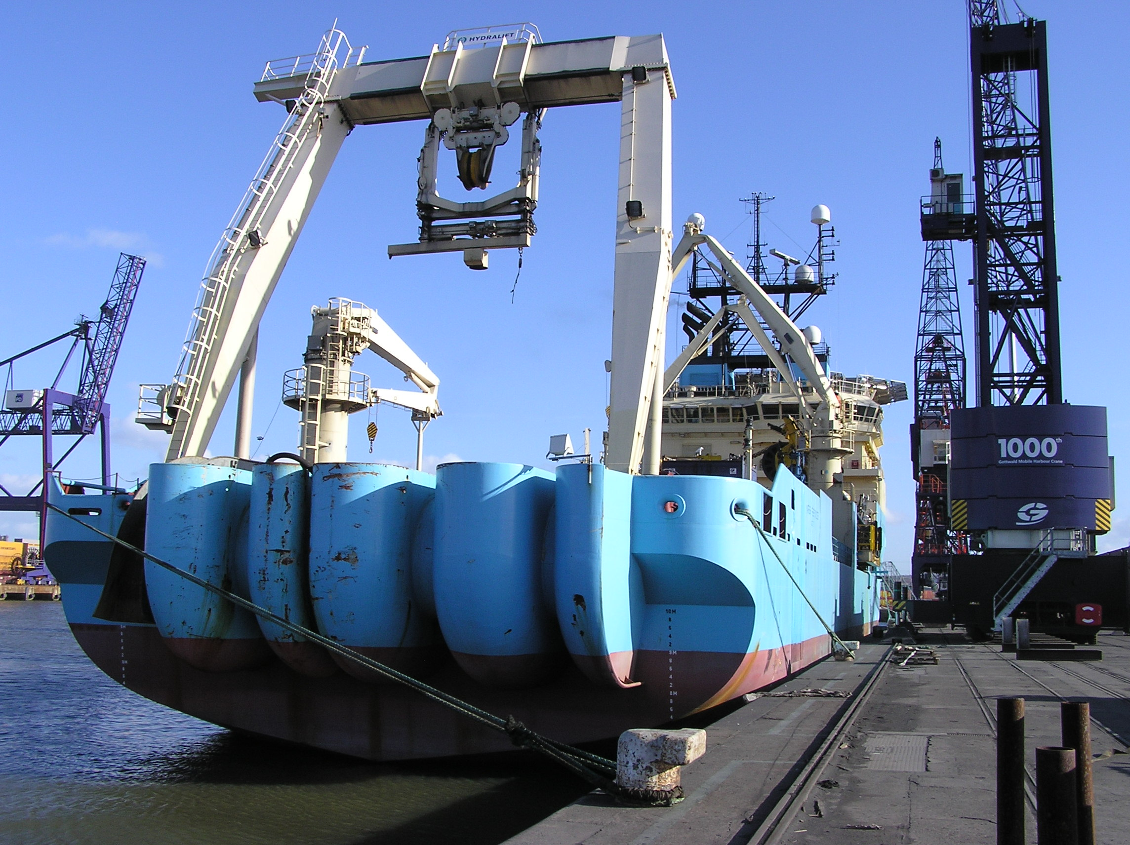 Cable Layer Ship: Doing a very good impression of a cable ship, except that it's full of ROV and trenching gear. IMO Number: 9215206 MMSI Number: 219916000 Callsign: OZYW2 Length: 106 m Beam: 20 m